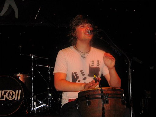 I am the originator of this photo. I hold the copyright. I release it to the public domain. This photo depicts Zac Hanson at a Hanson concert.